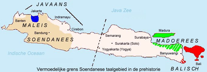 Linguistic map of Java, self made